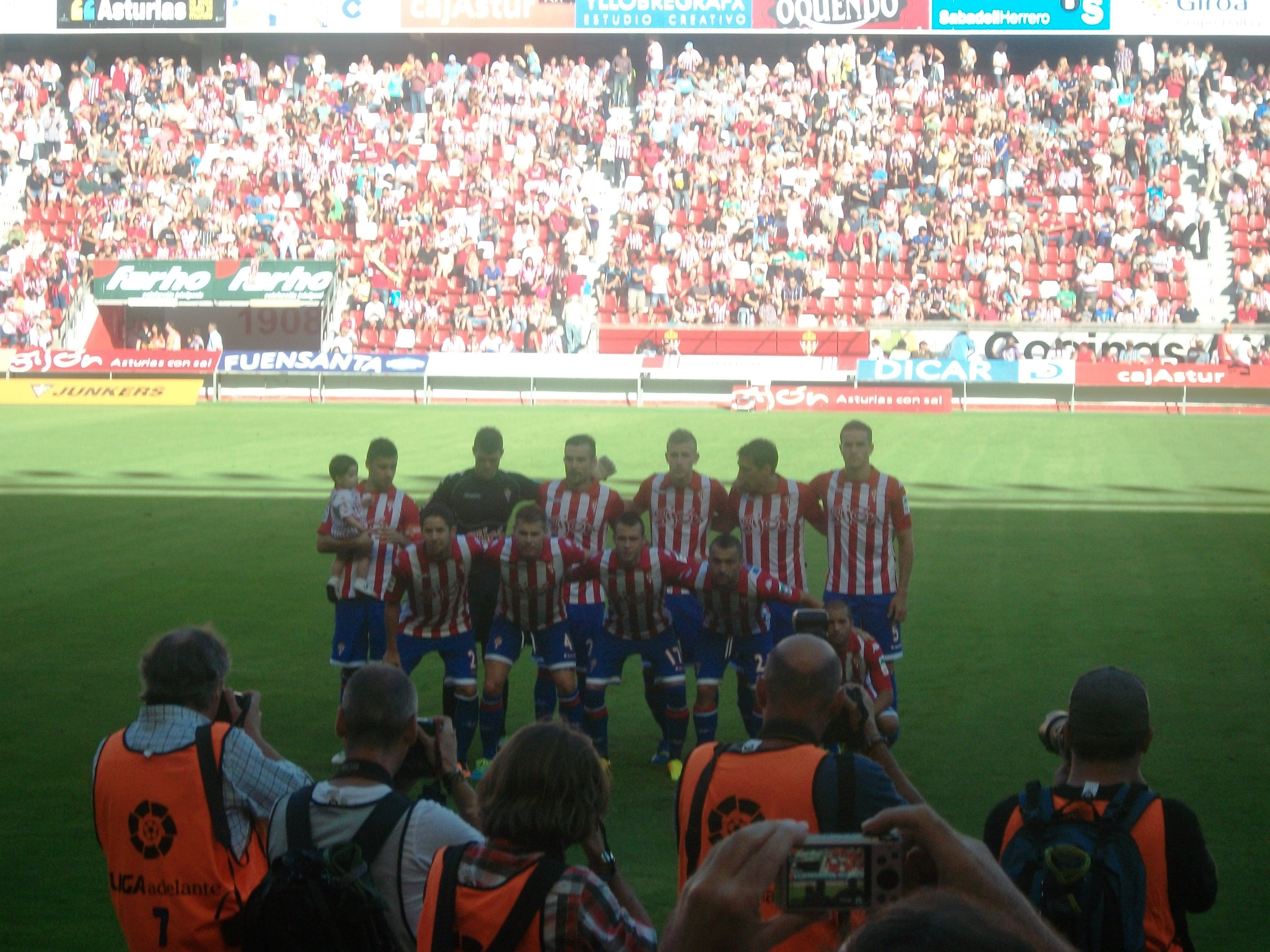 Starting 11 of Sporting de Gijón versus Real Madrid Castilla in the first match of 2013–14 Segunda División.